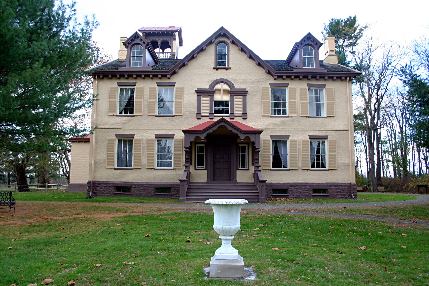 Lindenwald, the home and farm of Martin Van Buren, the eighth President of the United States in Kinderhook, New York, USA